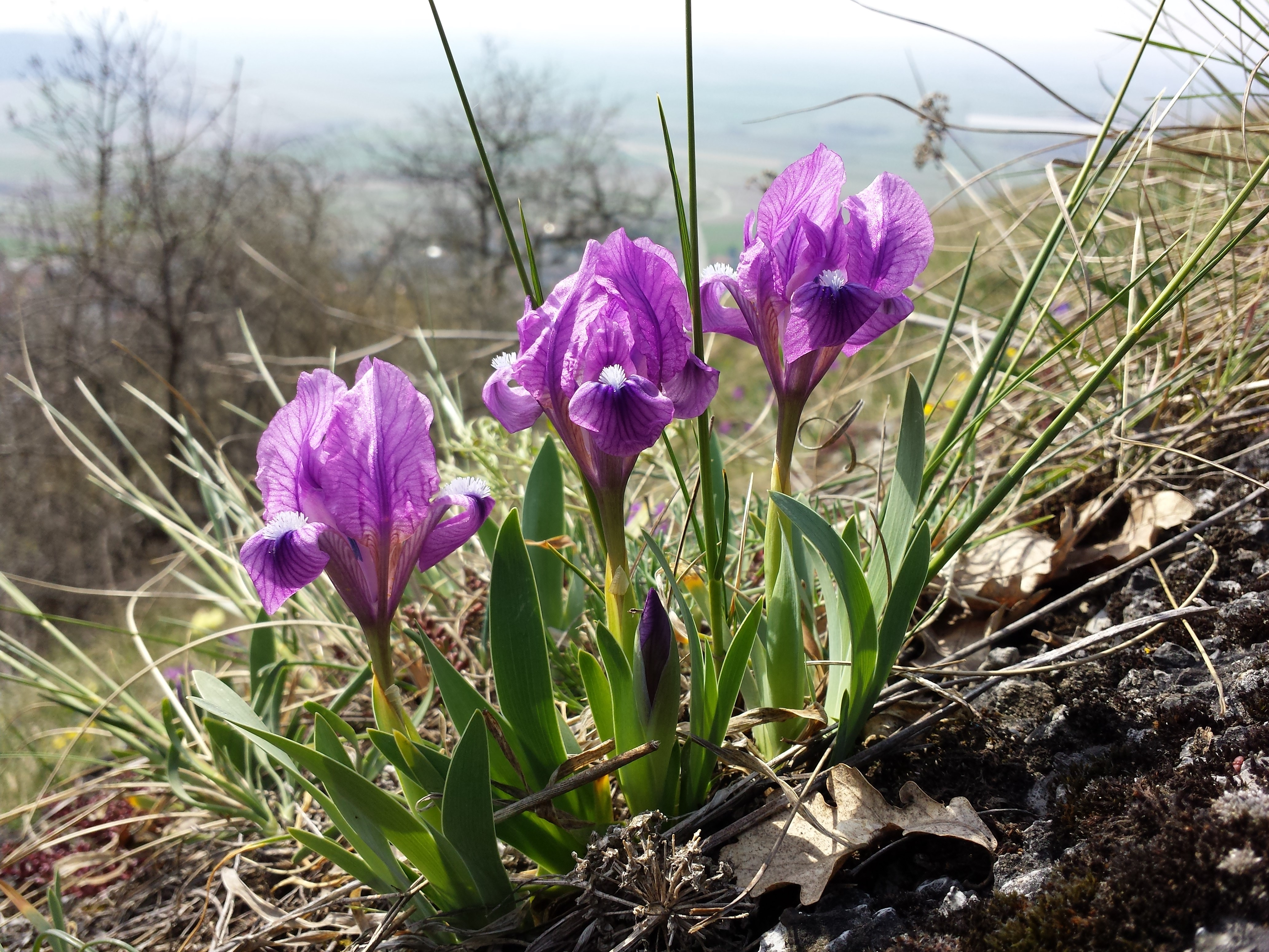 Habitus Taxonym: Iris pumila ss Fischer et al. EfÖLS 2008 ISBN 978-3-85474-187-9 Location: Hexenberg (Hundsheimer Berge), district Bruck an der Leitha, Lower Austria - ca. 400 m a.s.l. Habitat: dry grassland